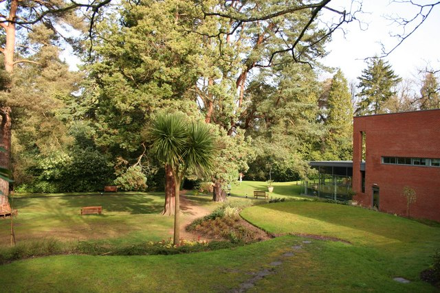 Berystede Hotel gardens Well kept lawns at the Berystede Hotel